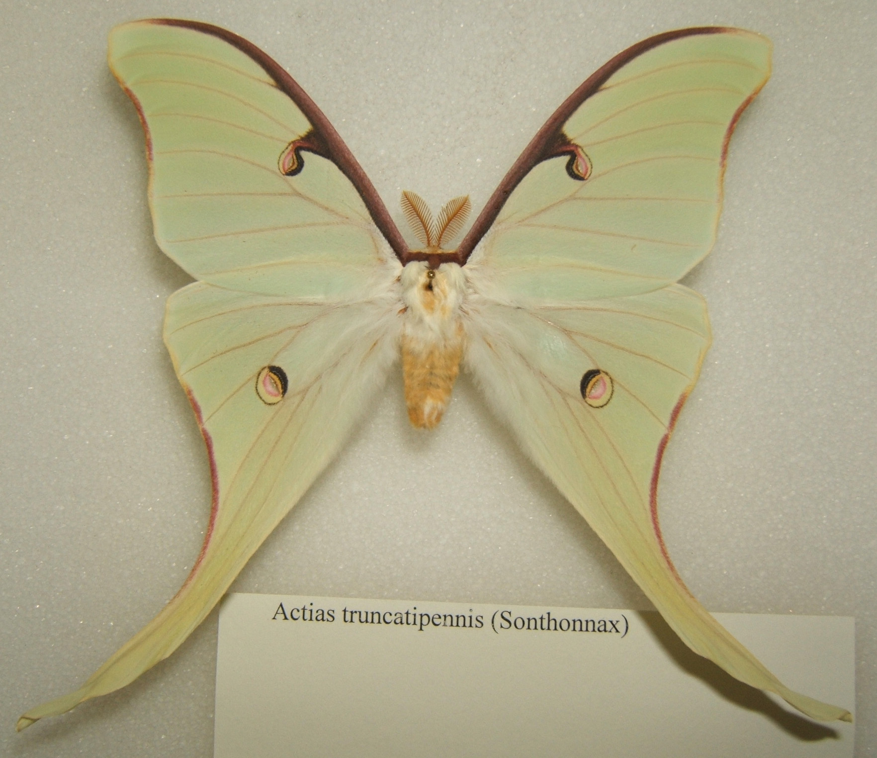 Actias truncatipennis adult male taken by Shawn Hanrahan at the Texas A&M University Insect Collection in College Station, Texas.